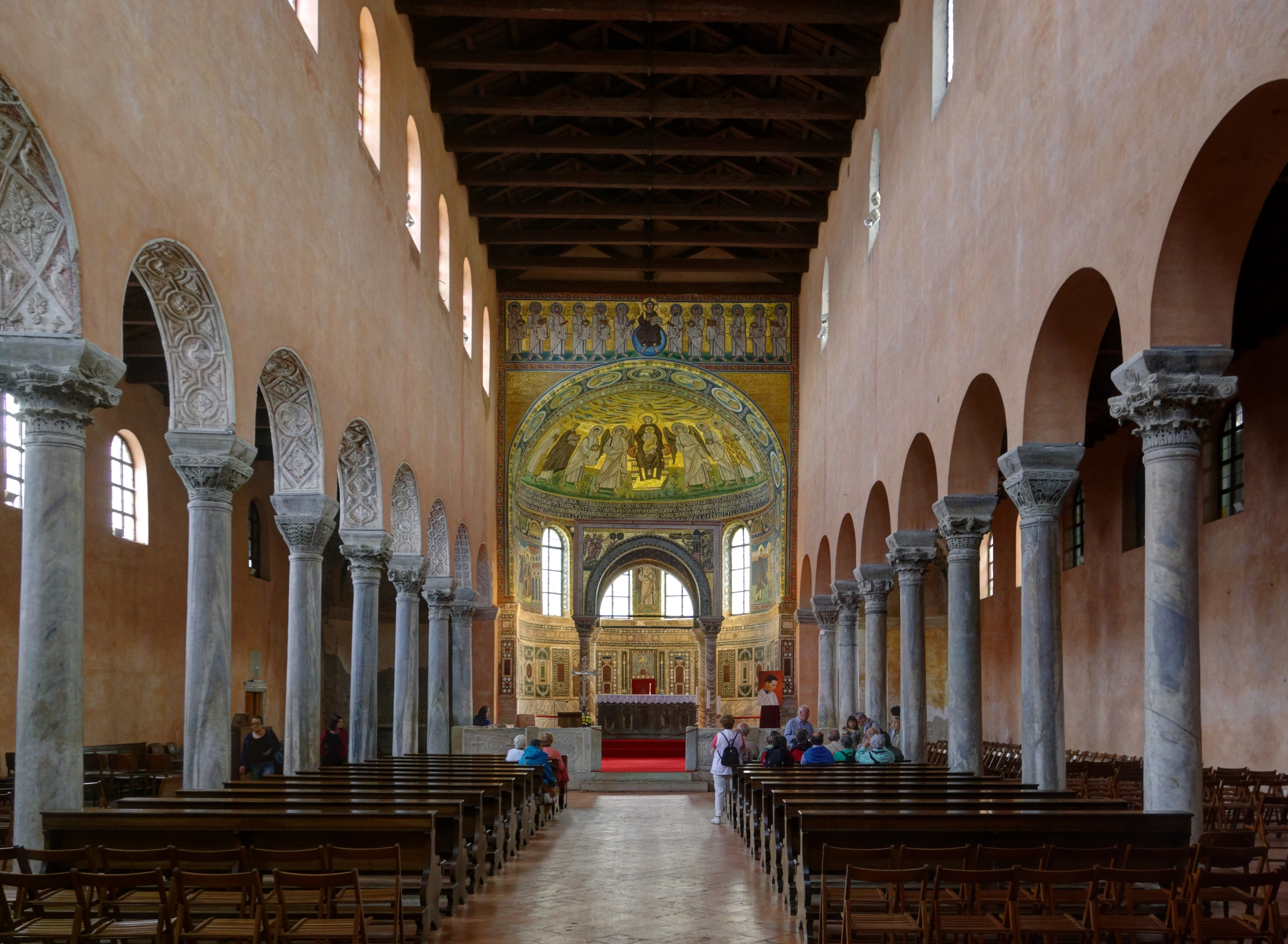 Croatia, Poreč, Euphrasian Basilica, nave